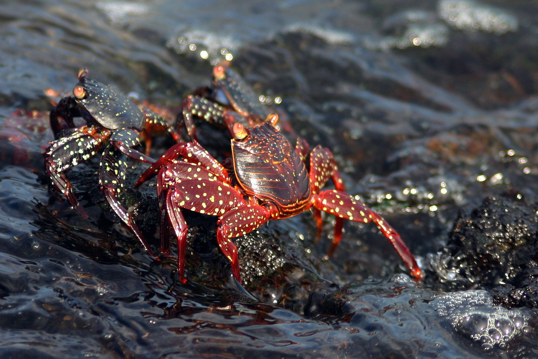 Galápagos Sally Lightfoot (Grapsus grapsus) crabs, juveniles.